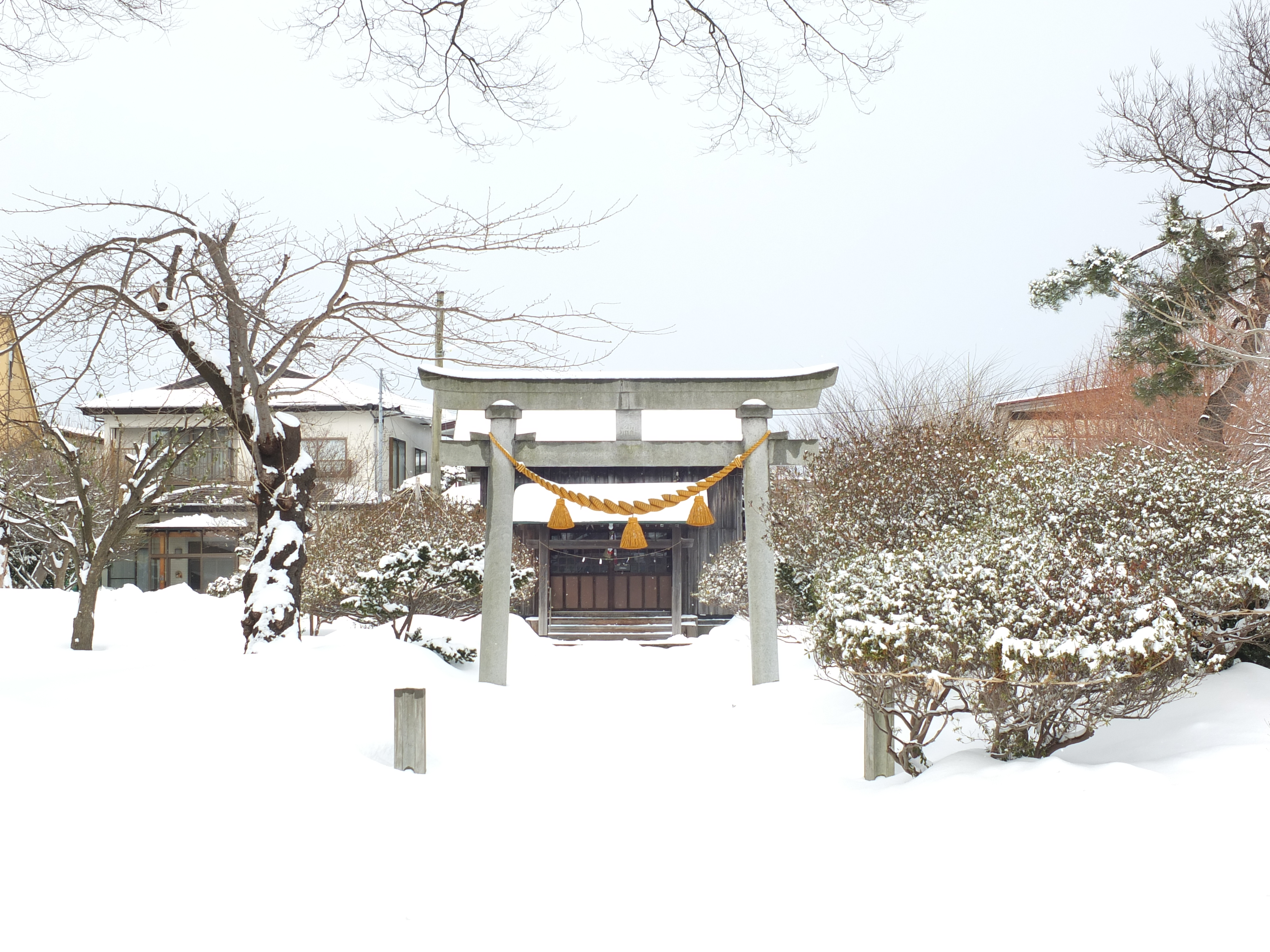 Kanasa zinzya (Shrine) at Hodonokanasamati, Akita city, Akita prefecture, Japan.